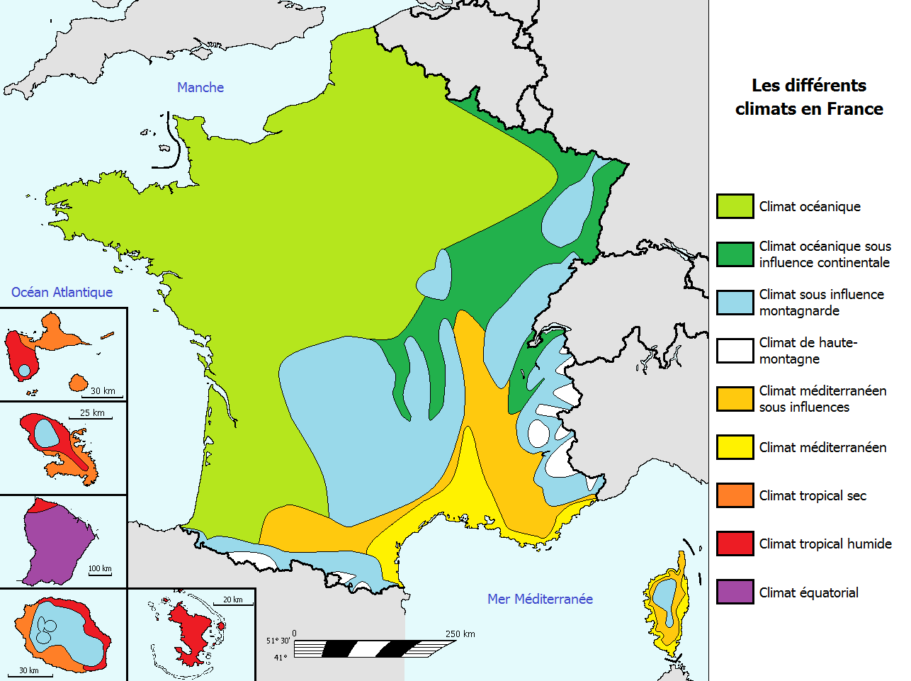 Map of the climates of France.